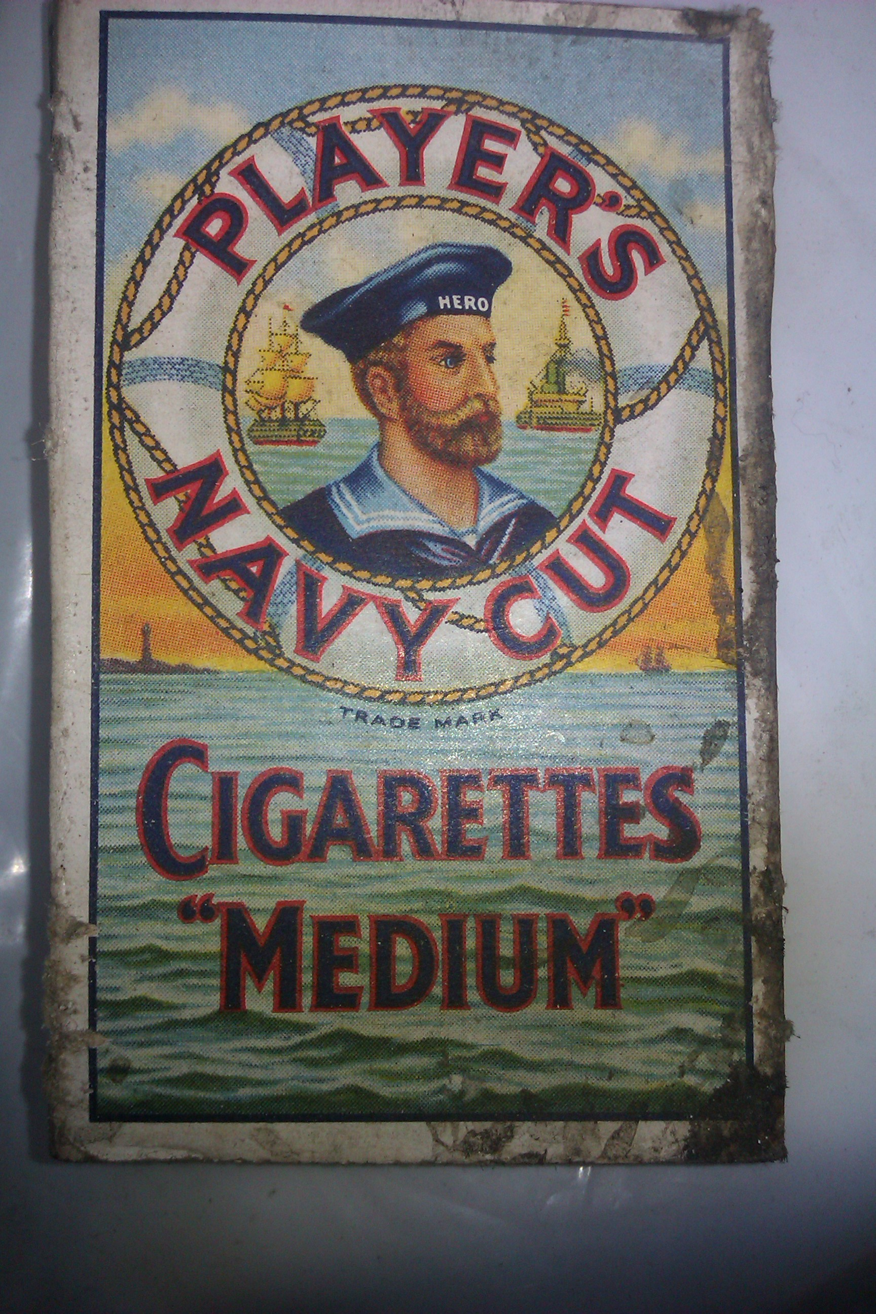 packet found during building work. possibly 1920s.